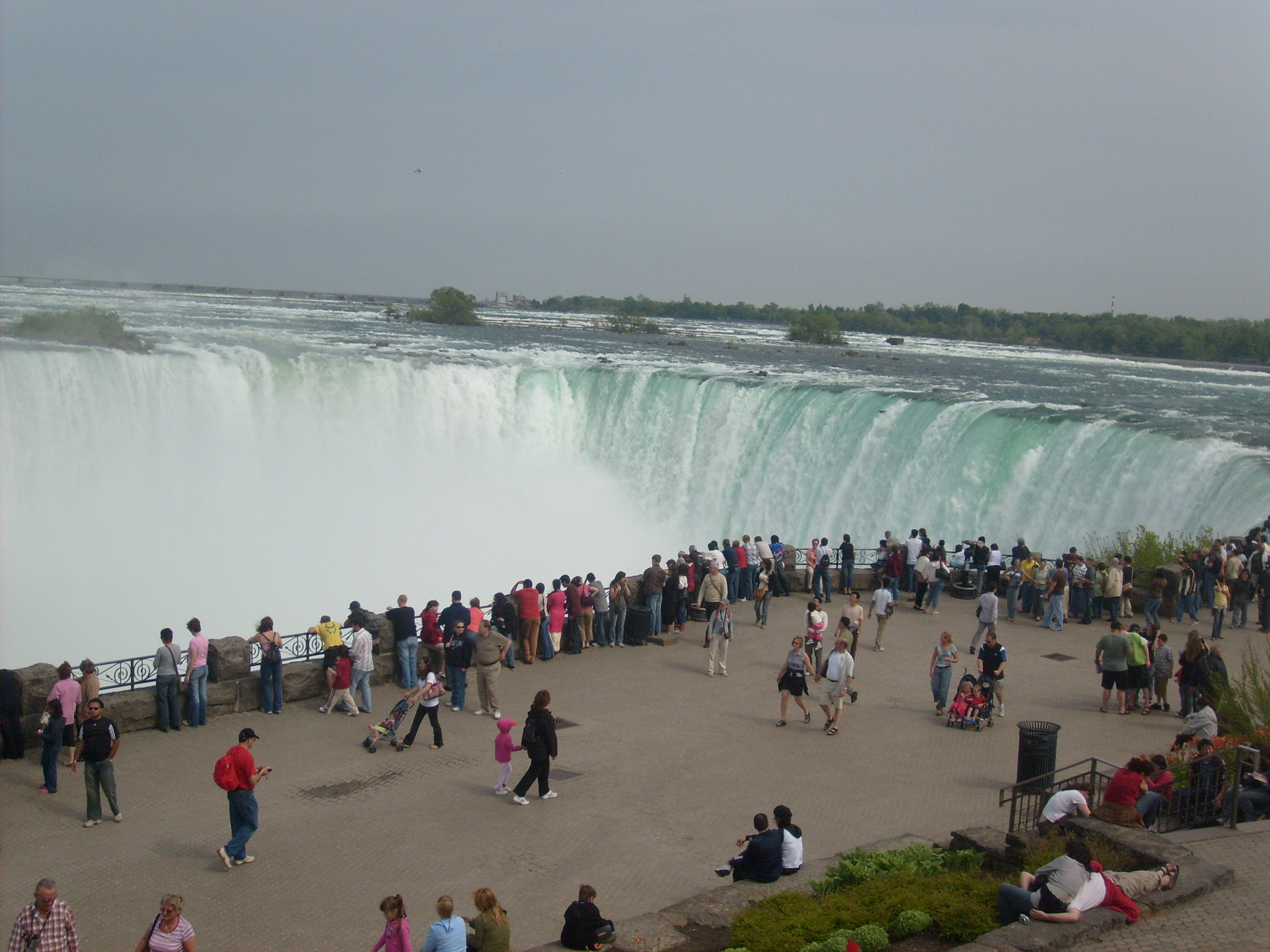 Horseshoe falls from Niagara Falls, Ontario.